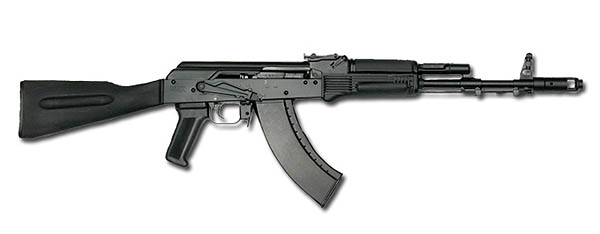 AK-103